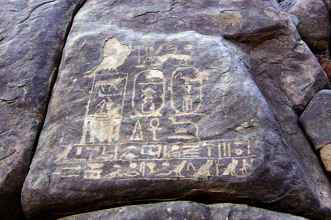 Inscription on Sehel Island Author: Markh